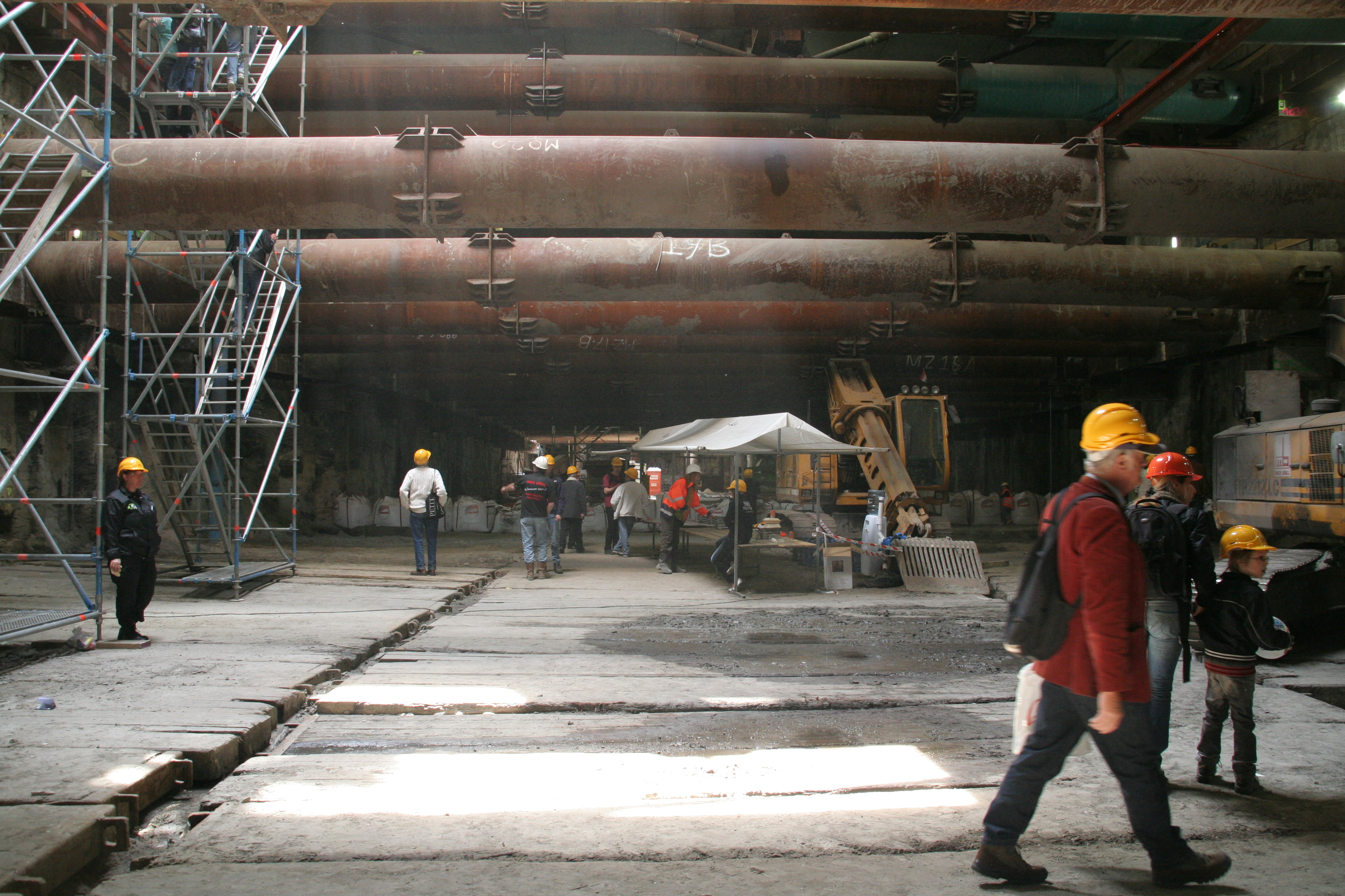 Dag van de bouw